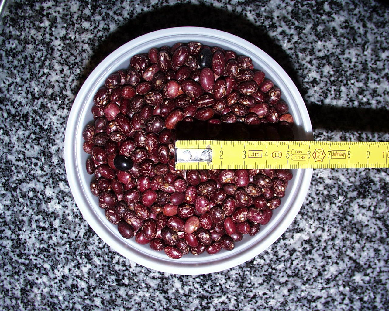 Beans Alubia pinta alavesa. Álava, Spain. Length unit in cm.